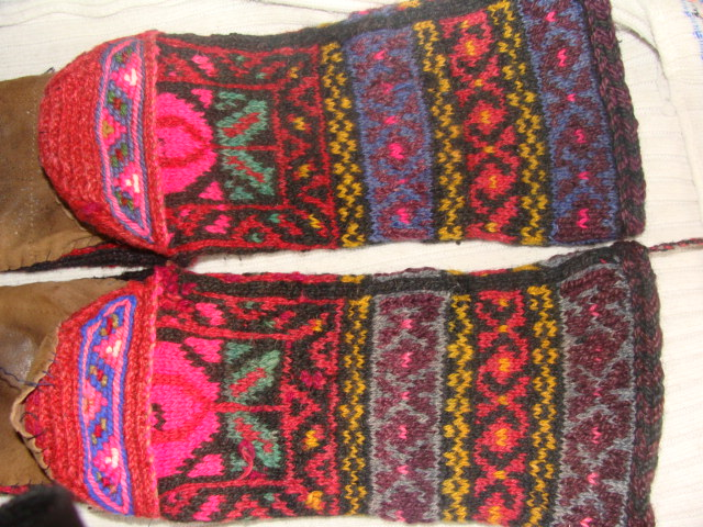 Dagestan-style jorabs made by Наталья Агаева